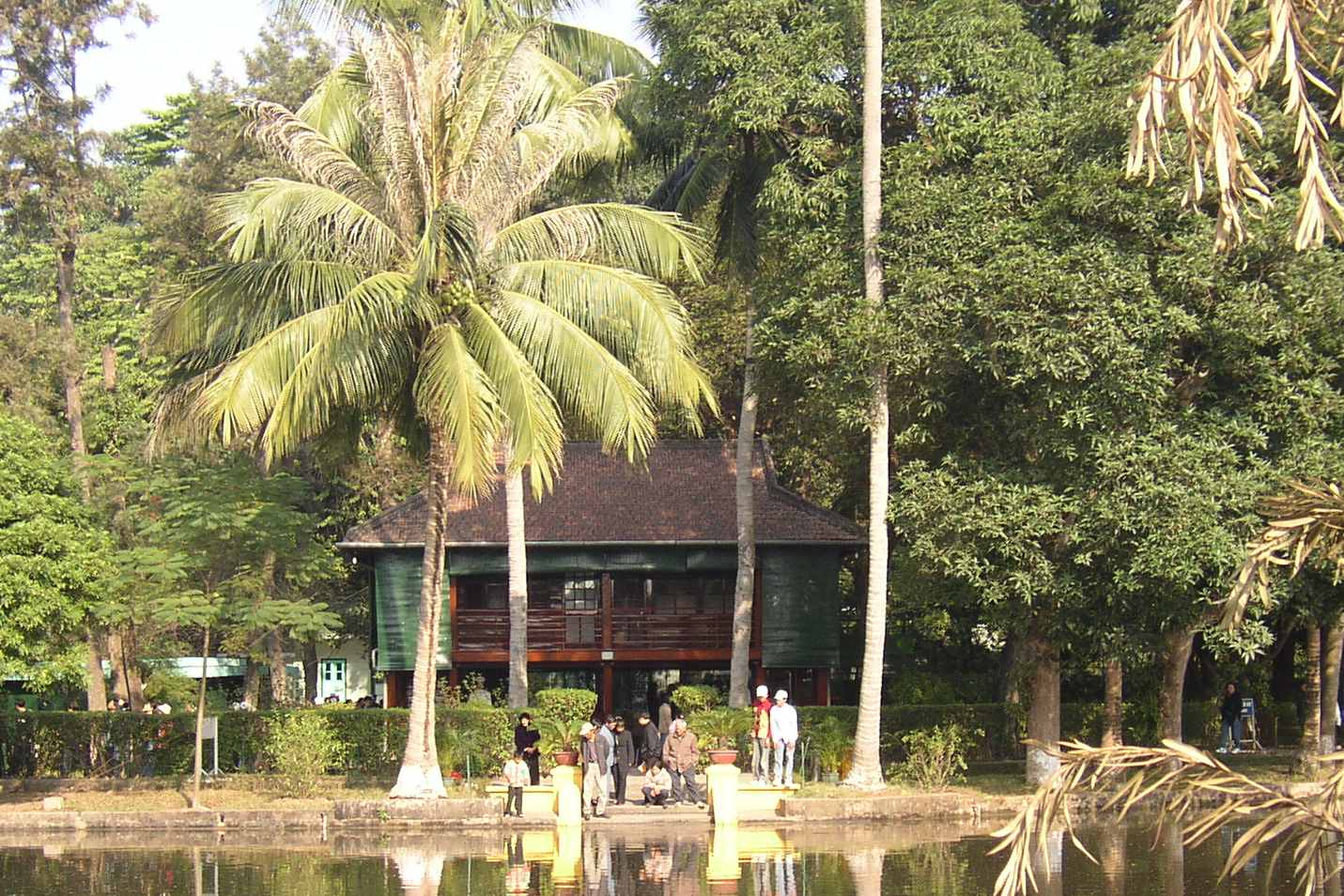 House of Hồ Chí Minh in Hà Nội